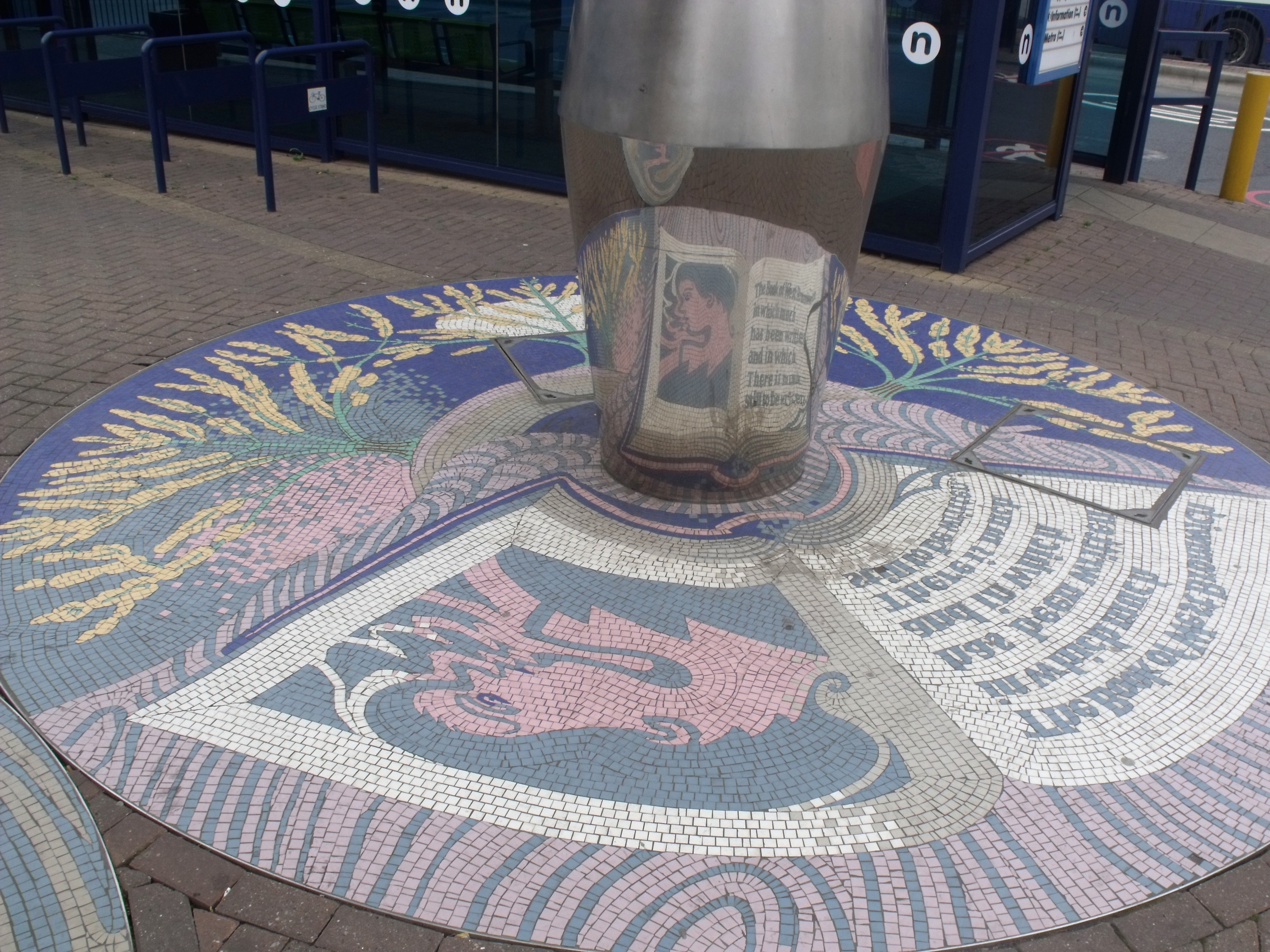 This is West Bromwich Bus Station in West Bromwich. Served by buses operated by National Express West Midlands and other bus operators such as Diamond. It is near West Bromwich Central Tram Stop on the Midland Metro. Sculptured sign of the bus station with mosaic's at the base of each leg. The mosaic's reflect in the metal. The bus station opened in 2002. Client: Halcrow Rail Year of Completion: 2002 Architect/Designer: Mark Worrall Associates Main Contractor/Customer: Ballast PLC. The mosaics were designed by Steve Field, and laid by Ilona Bryan (bryanilona) and Chris Willetts.